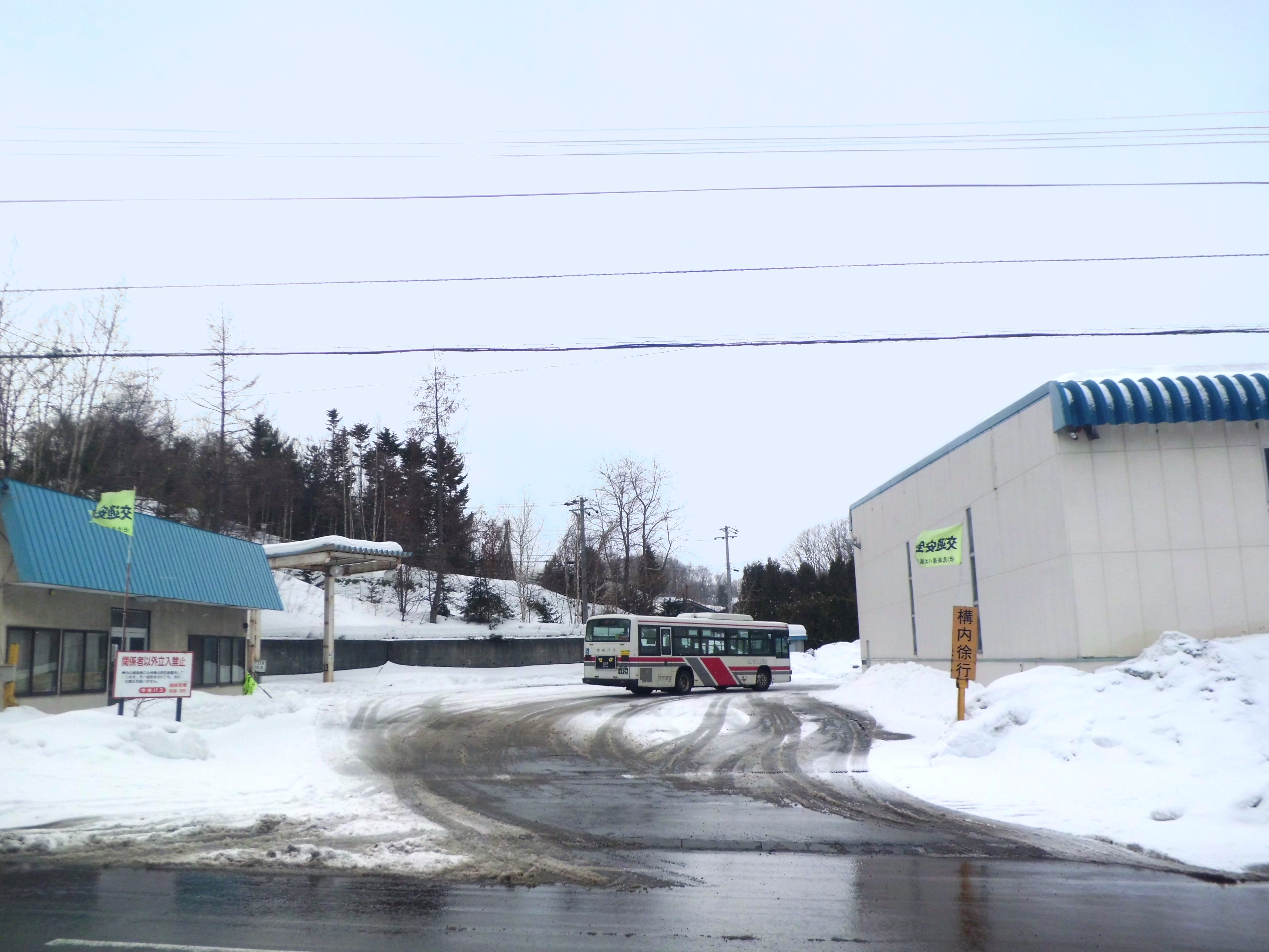 Hokkaido Chuo Bus Nishioka Office